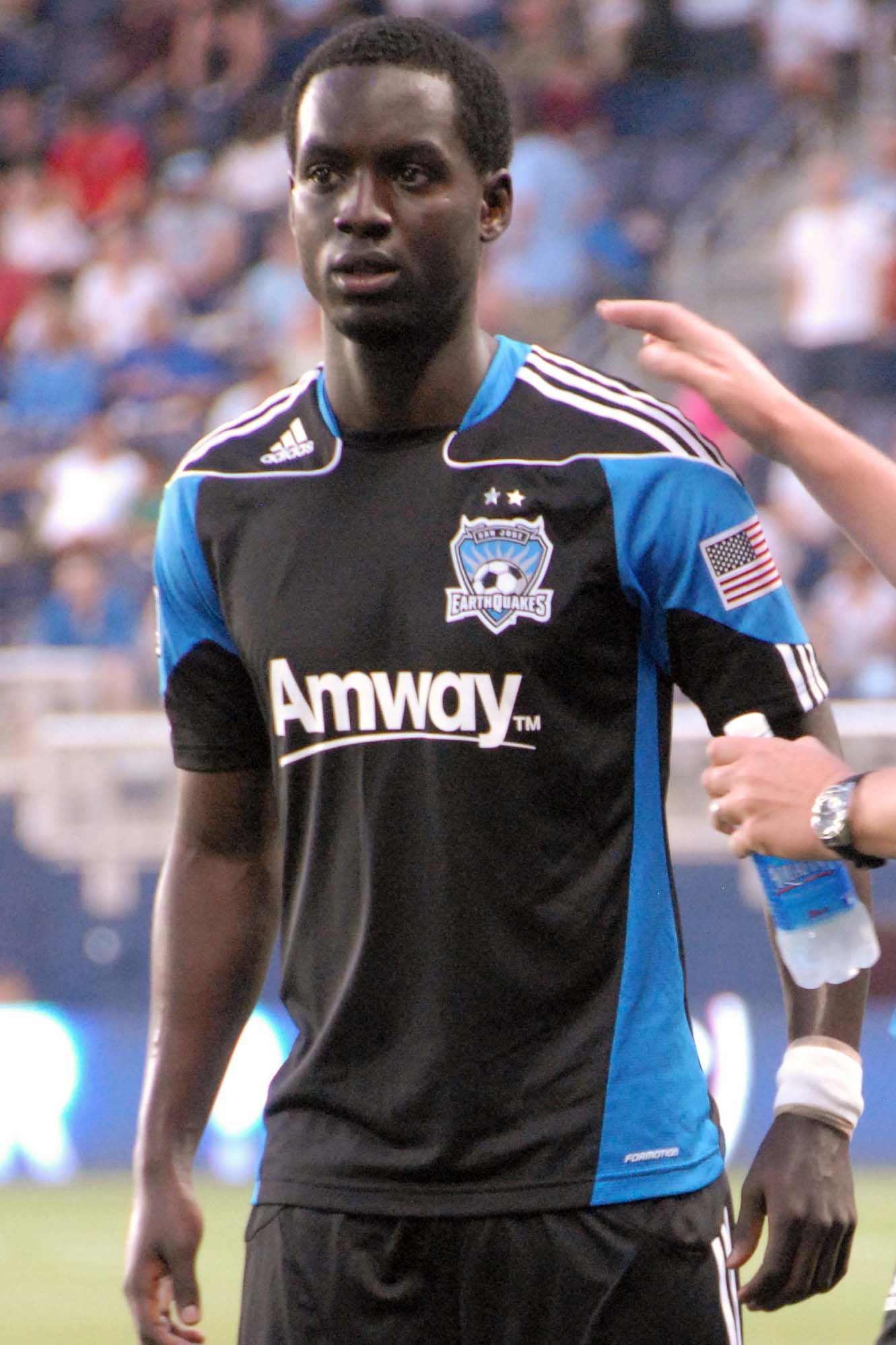 SImon Dawkins of the San Jose Earthquakes in June 2011 Sporting KC v San Jose Earthquakes @ LIVESTRONG Sporting Park